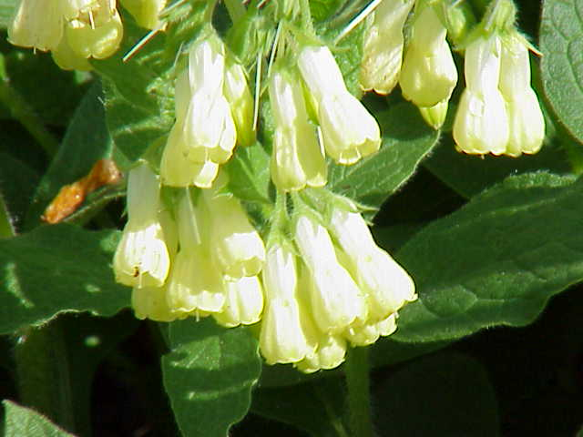 Species: Symphytum tuberosum Family: Boraginaceae Image No. 2